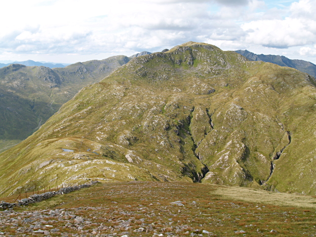 Creag nan Damh from the SE